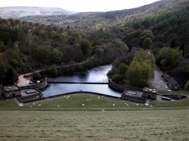 The Tailbay Looking down from Ladybower Dam you can see the 2 pumping stations to the left and right of the River Derwent. Between the 2 stations is an area known as The Tailbay where surplus water is released. These pumping stations deal with around 10% of the water for the Severn Trent area and water is piped as far south as Leicester.